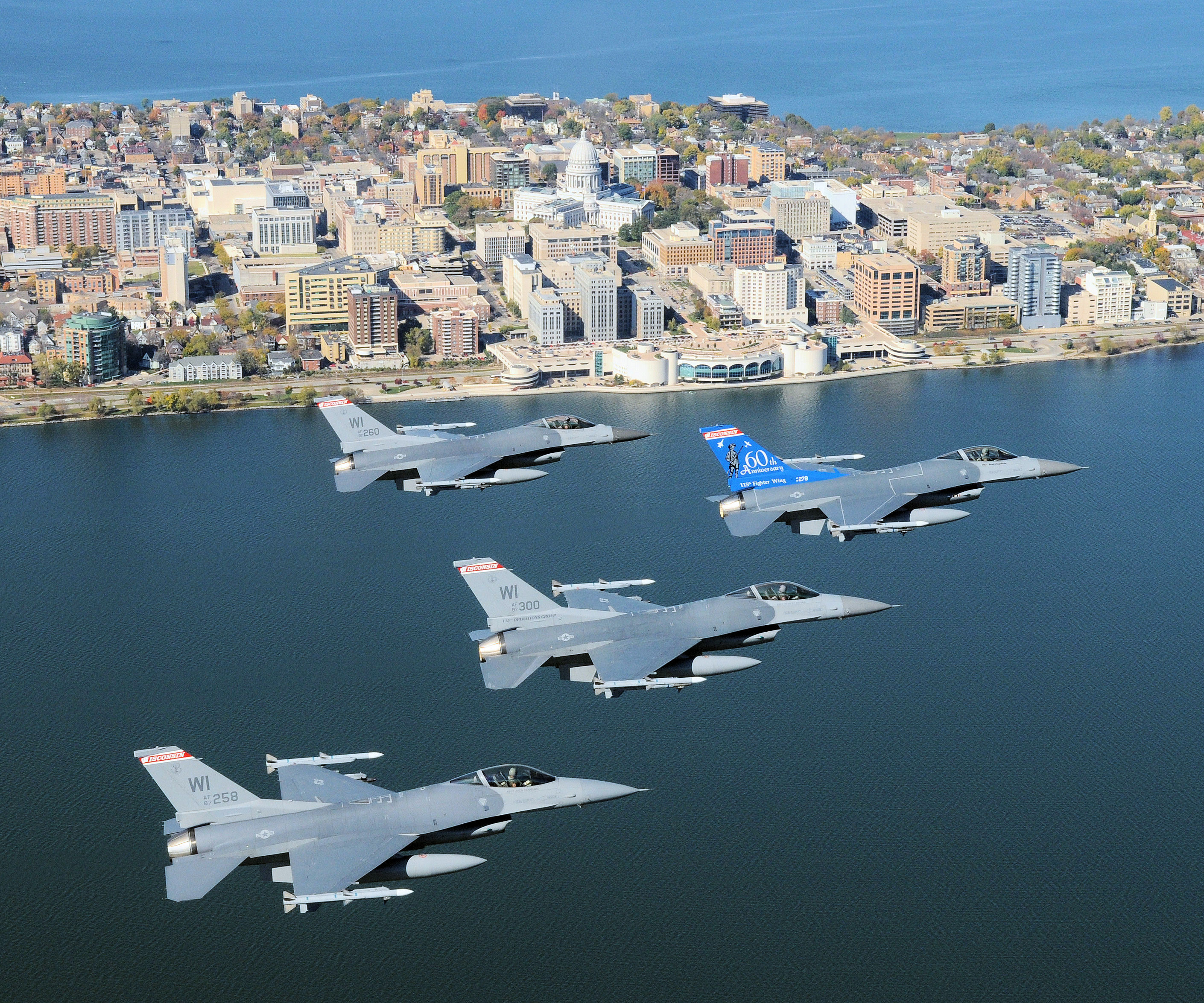 A four ship of F-16C Fighting Falcons from the 115th Fighter Wing, Wisconsin Air National Guard over Wisconsin's capital city of Madison October 18th, 2008. In flight lead is aircraft 87-278 with a unique tail flash that was designed to celebrate the unit's 60th Anniversary. (U.S. Air Force Photo by Master Sgt. Paul Gorman) (RELEASED)